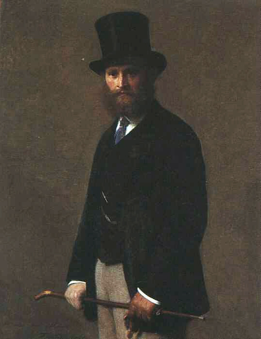 (Portrait of) Édouard Manet by Henri Fantin-Latour (1836-1904; Art Institute of Chicago, Chigago, Illinois, USA